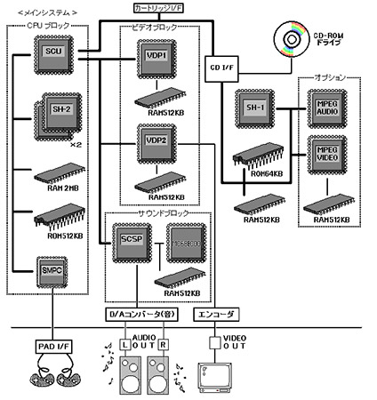 The hardware process of the SEGA Saturn.